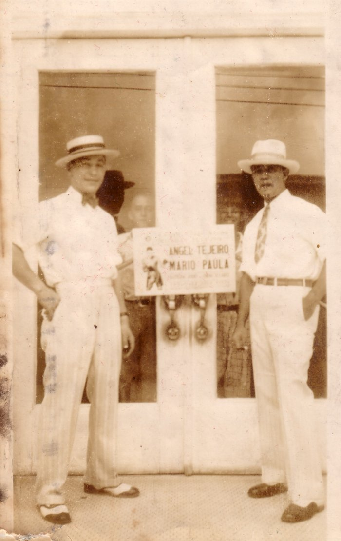 Angel Tejeiro, lightweight champion of Spain, and his manager Richard Brockway in Tampa, FL